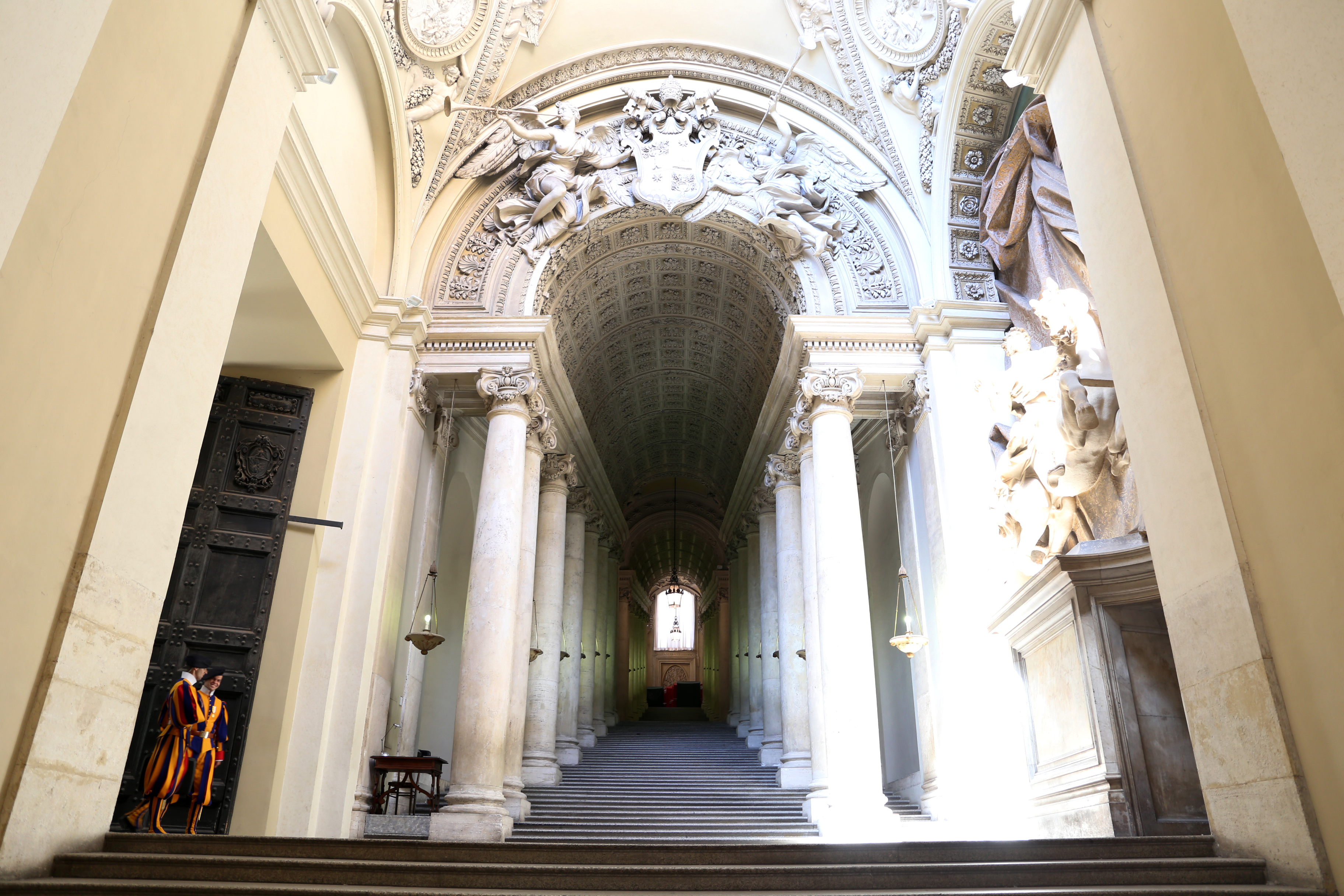 Scala Regia